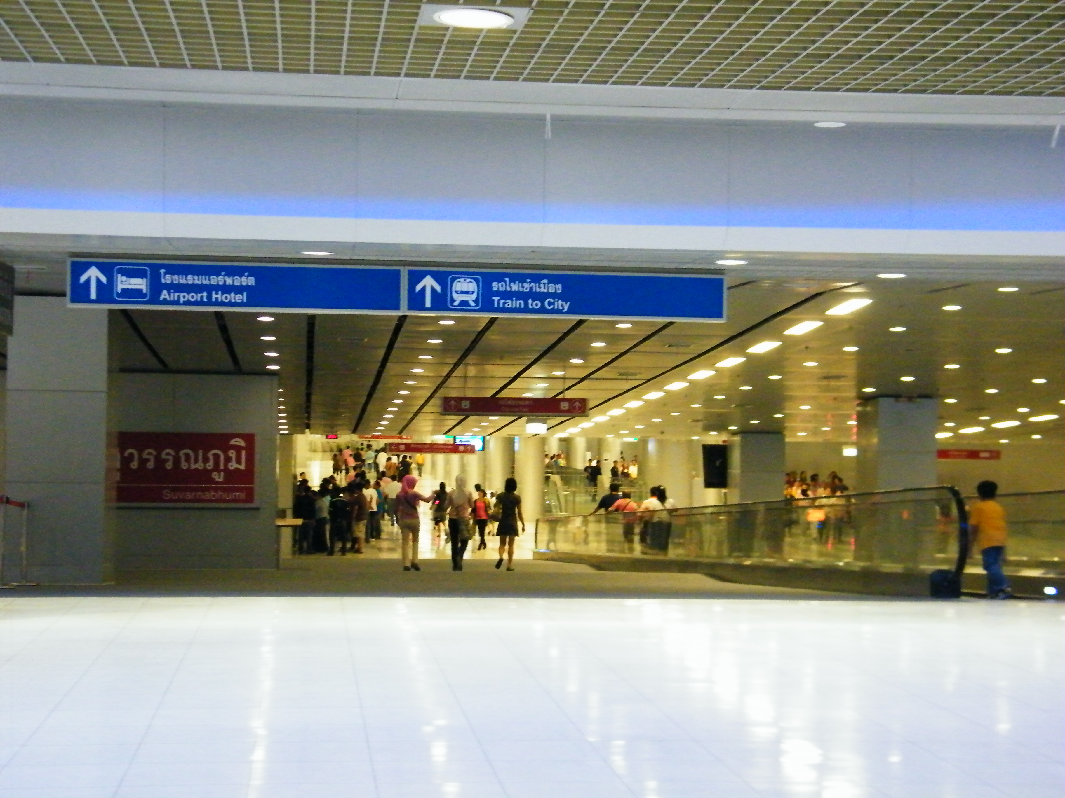 Interior of Suvarnabhumi Station, Suvarnabhumi Airport Rail Link